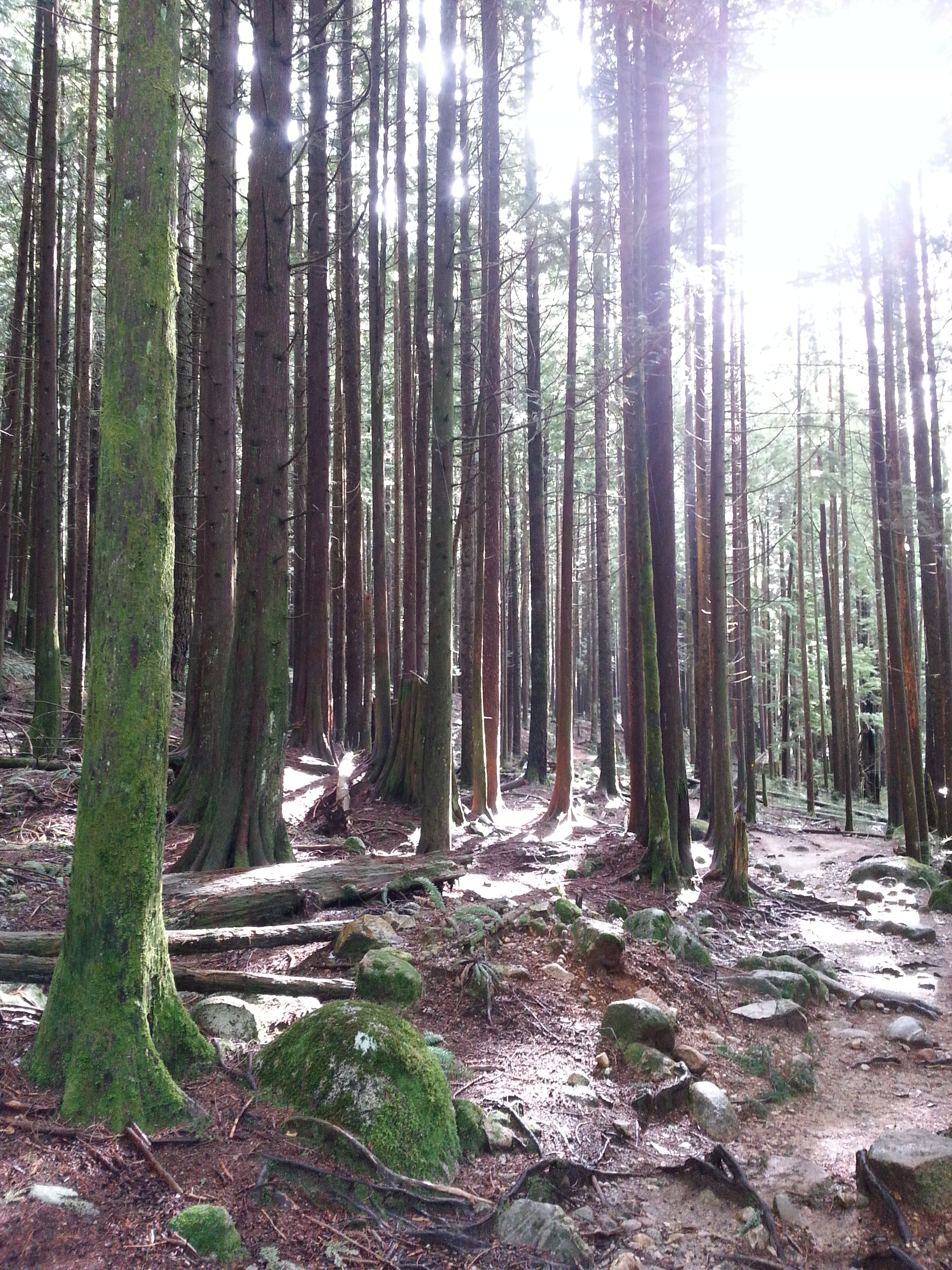 A view of second growth trees on the Lynn Loop Trail at Lynn Canyon Park, North Vancouver, BC